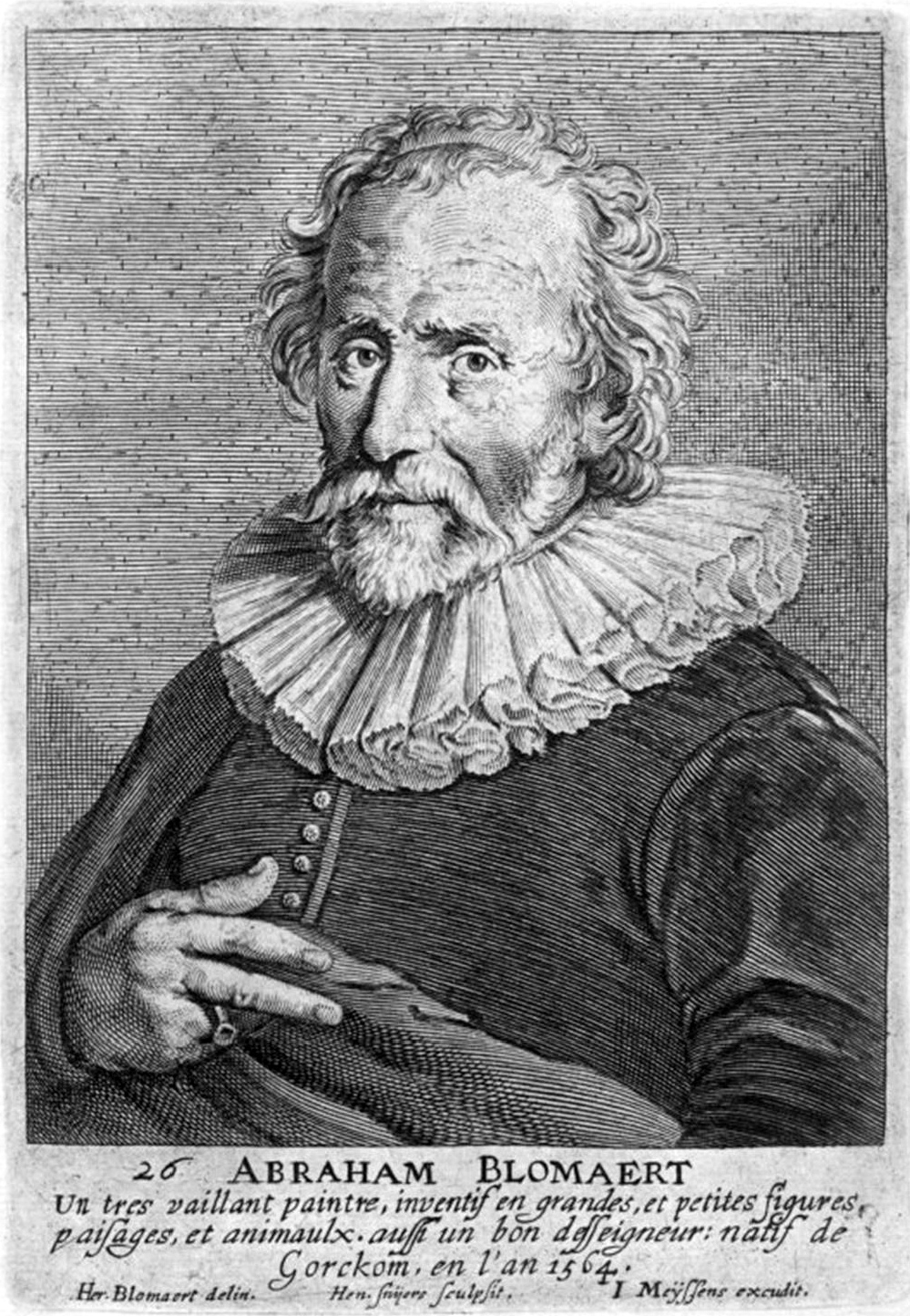 Portrait of Abraham Bloemaert (1564/66 - 1651) by his son Hendrick.